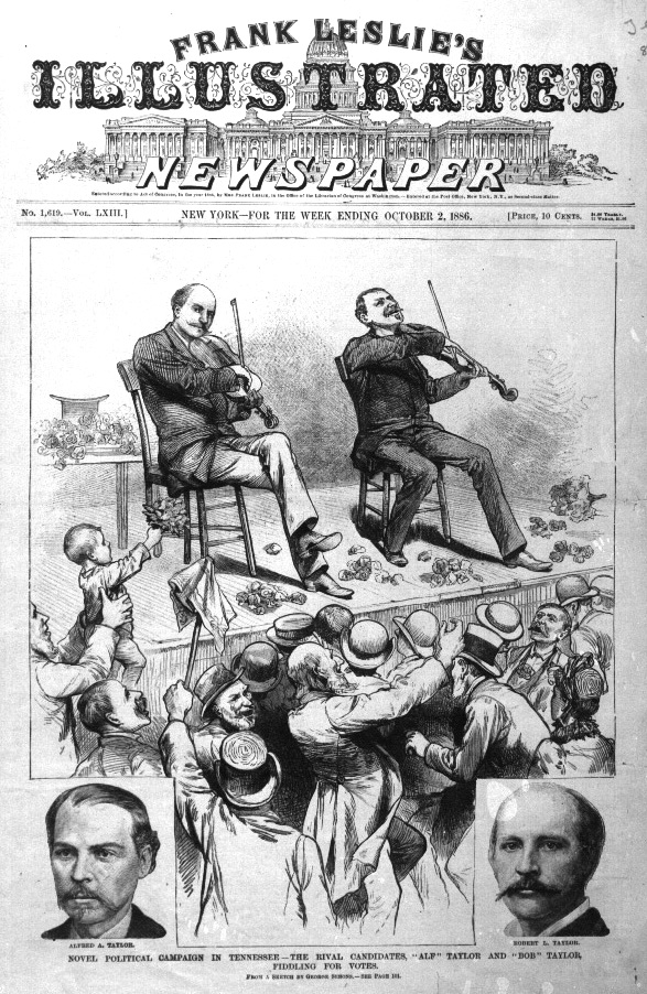 Cover of the October 2, 1886 issue of Frank Leslie's Illustrated Newspaper, showing Tennessee brothers and gubernatorial opponents Robert Love Taylor and Alfred A. Taylor entertaining a crowd during a campaign rally.